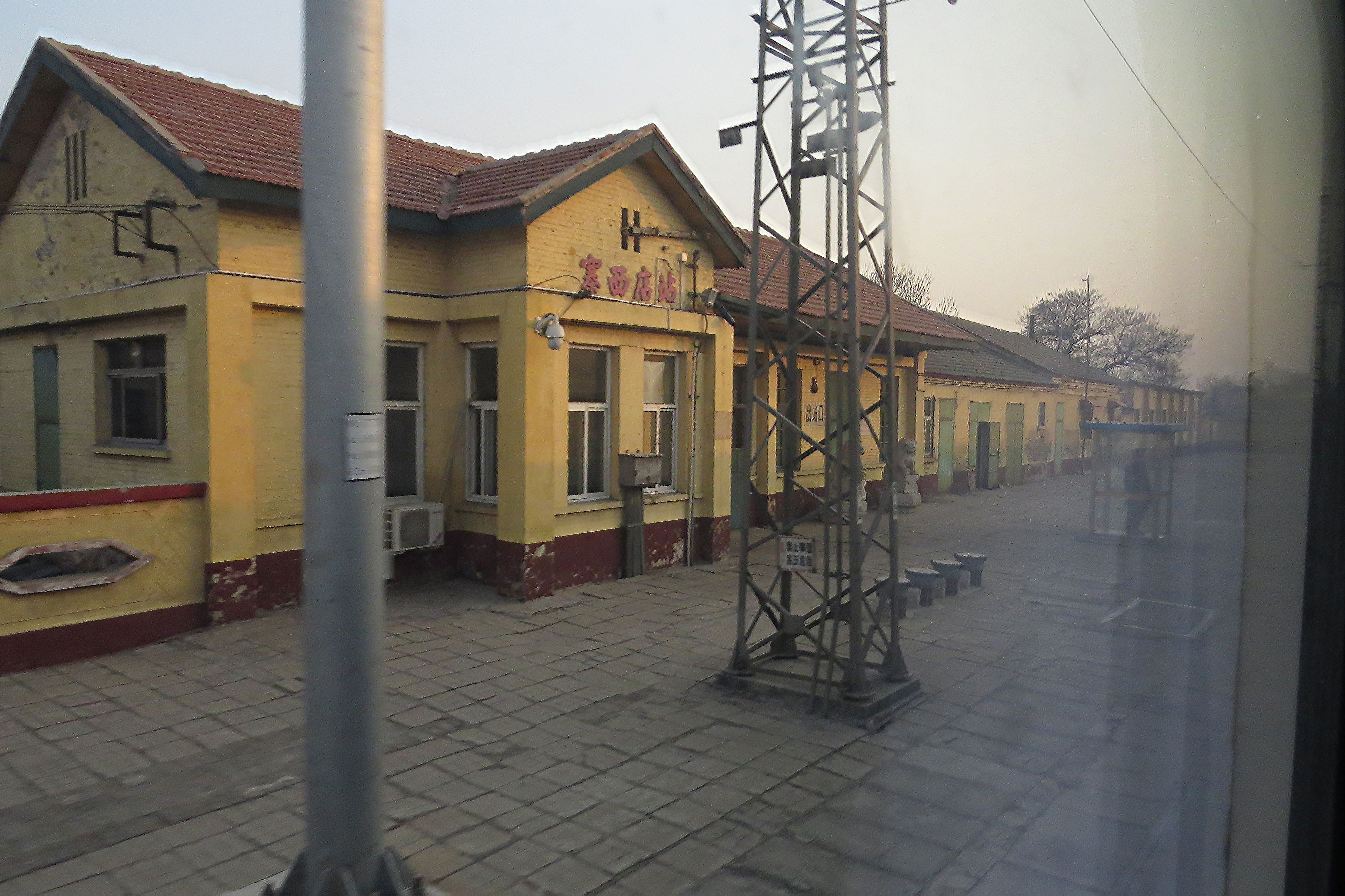 This is the last station in Dingzhou on the Jingguang Railway.